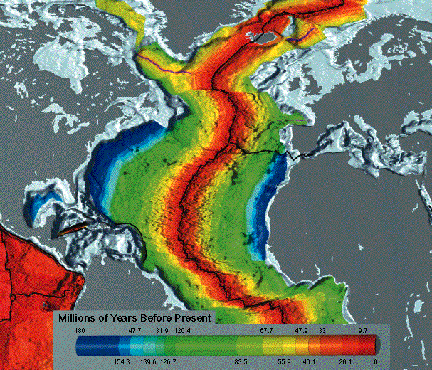 Age of North Atlantic oceanic crust. (See also Image:Earth seafloor crust age poster.gif) Source: Excerpted from ; original upload in english wikipedia 31 March 2005 by User:SEWilco